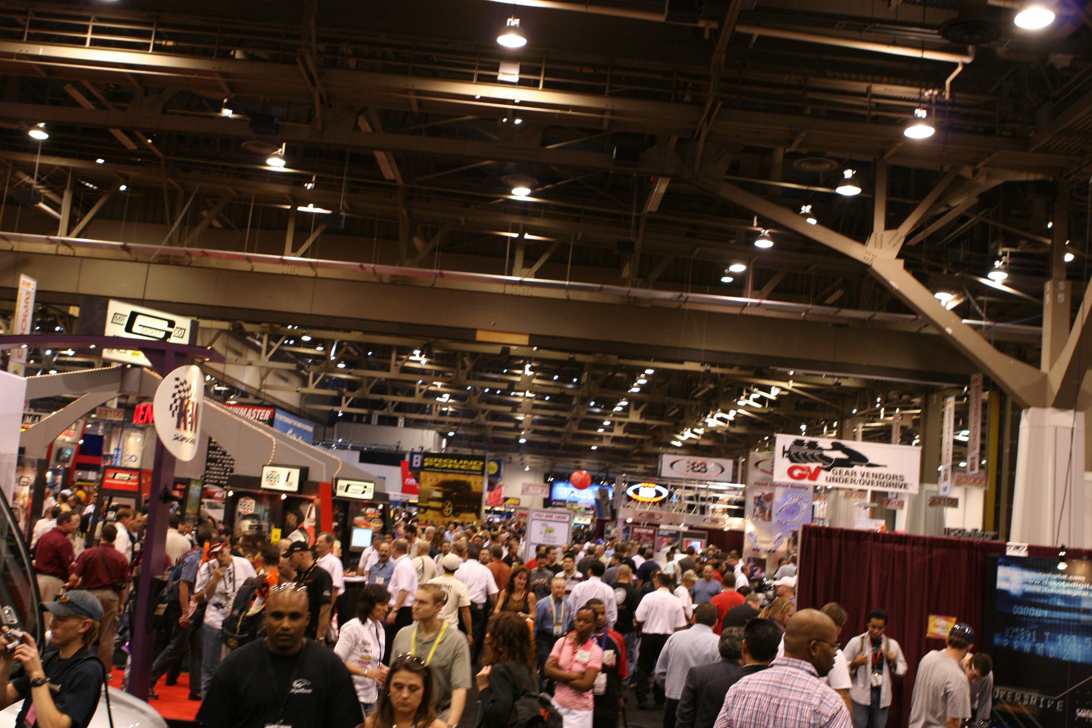 SEMA Show 2005, Las Vegas Convention Center